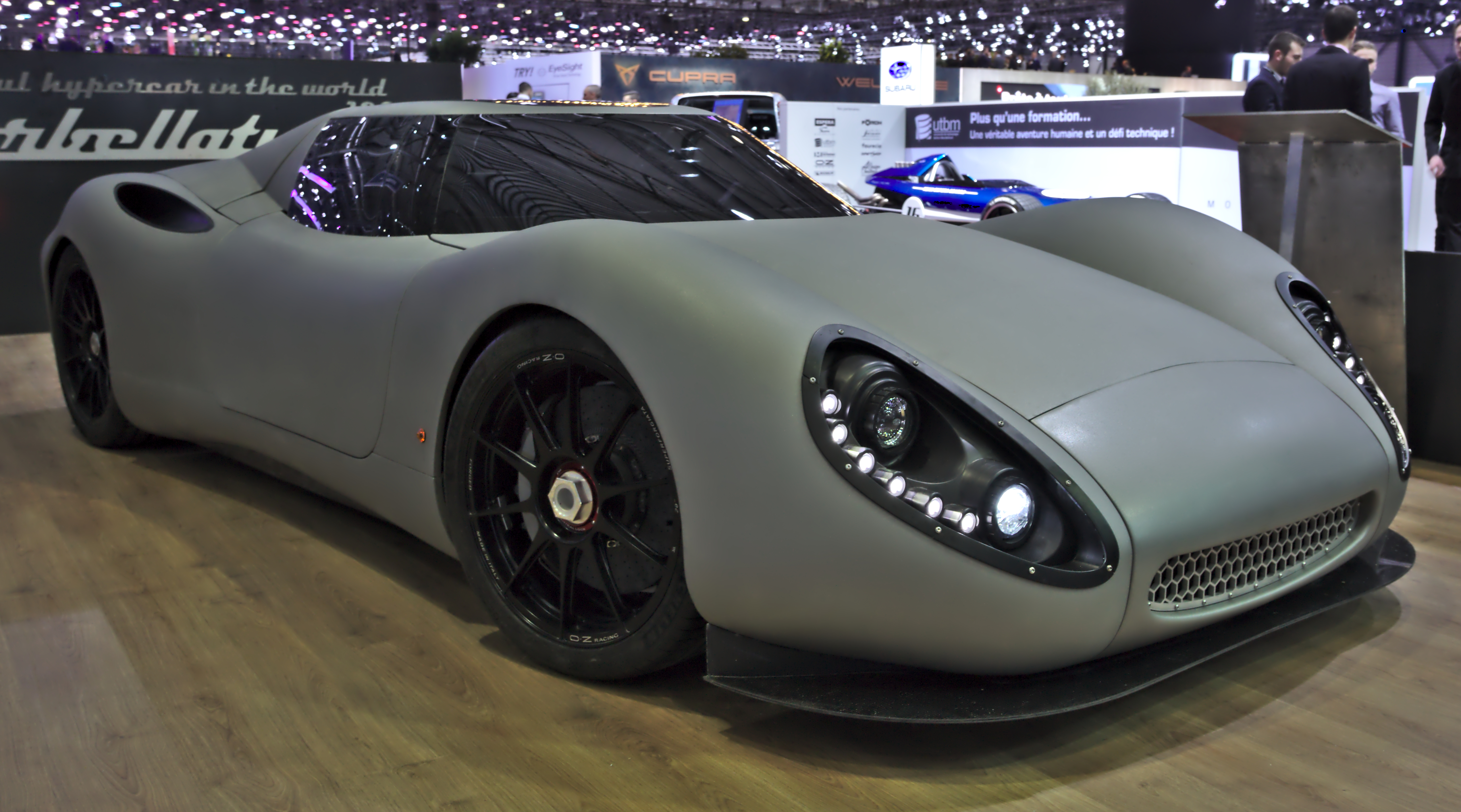 Corbellati Missile at Geneva Motorshow 2018